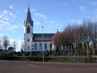 Photo of Köinge church, Sweden